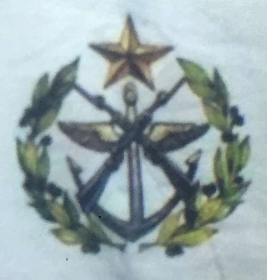 Insigna of the Algerian marine fusilier